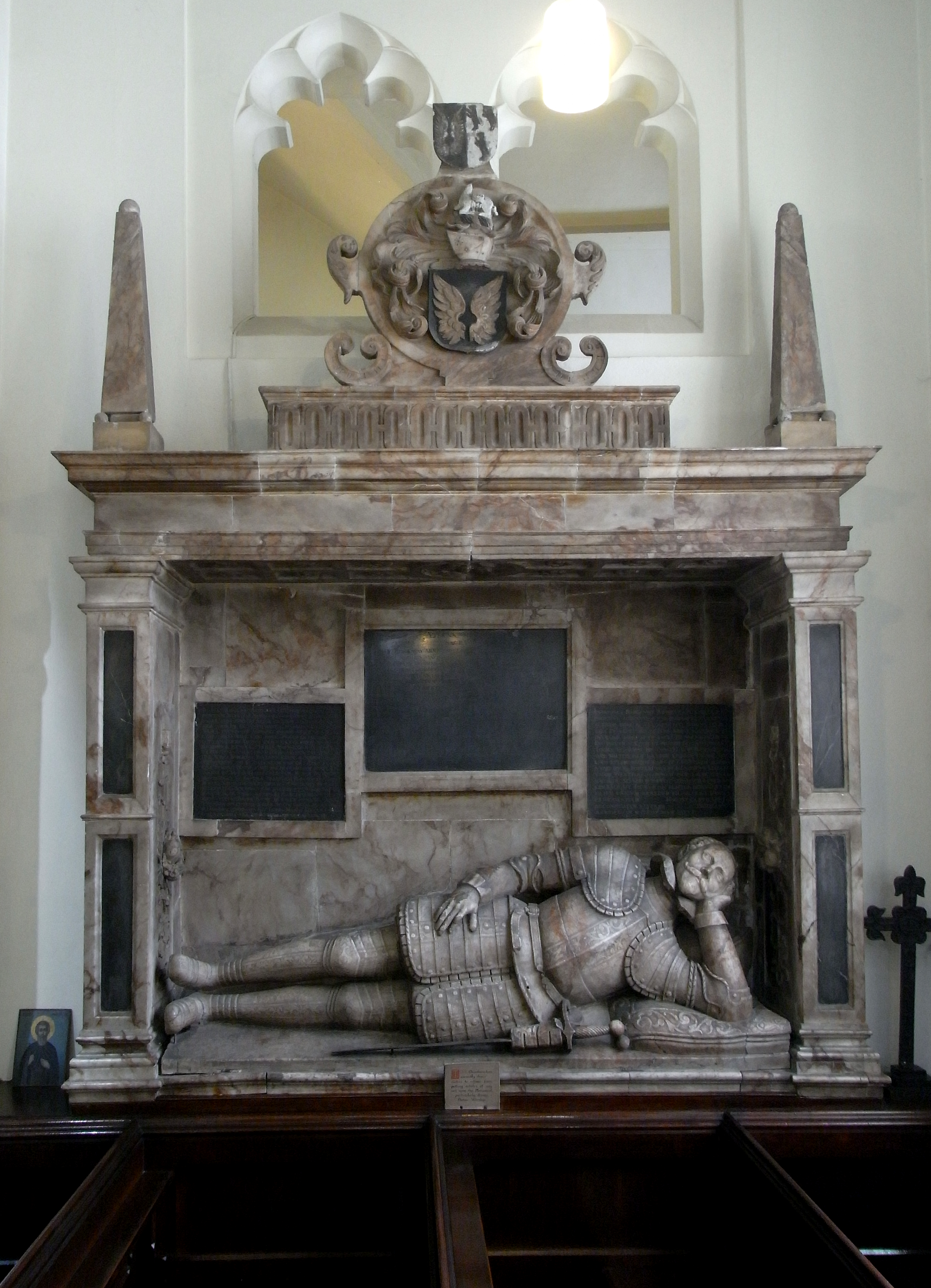 Monument to Thomas Ridgeway (1543-1598), MP, of Torwood House, Tor Mohun, Devon. In the former St Saviour's Church, Tor Mohun, today serving as the Greek Orthodox Church of Saint Andrew, Torquay. Stabb (1908) wrote as follows: "At the east end of the south aisle is a fine monument (plate 237c) with recumbent male figure in alabaster, in memory of members of the Ridgeway family. The effigy of a knight is arrayed in complete plate armour, the head rests on a pillow on which is his helmet. On the head is a close cap from which the curly hair projects at the sides, he wears moustache and pointed beard, his sword with metal blade by his side. At the back of the monument under the canopy are three slate tablets with inscriptions in Latin, too long to be inserted here, but they will be found in full in White's History of Torquay. The monument is surmounted by a coat of arms and shield with crest." (Stabb, John, Some Old Devon Churches, Volume 1, London, 1908, Plate 237c[1]) The arms above show Sable, a pair of wings conjoined and elevated argent (Ridgeway) impaling Argent, three lions salient sable (for his second wife "Alice" of unknown family). Crest: A dromedary couchant argent maned sable bridle and trappings or (Vivian, Lt.Col. J.L., (Ed.) The Visitations of the County of Devon: Comprising the Heralds' Visitations of 1531, 1564 & 1620, Exeter, 1895, p.647). See his History of Parliament biography[2]